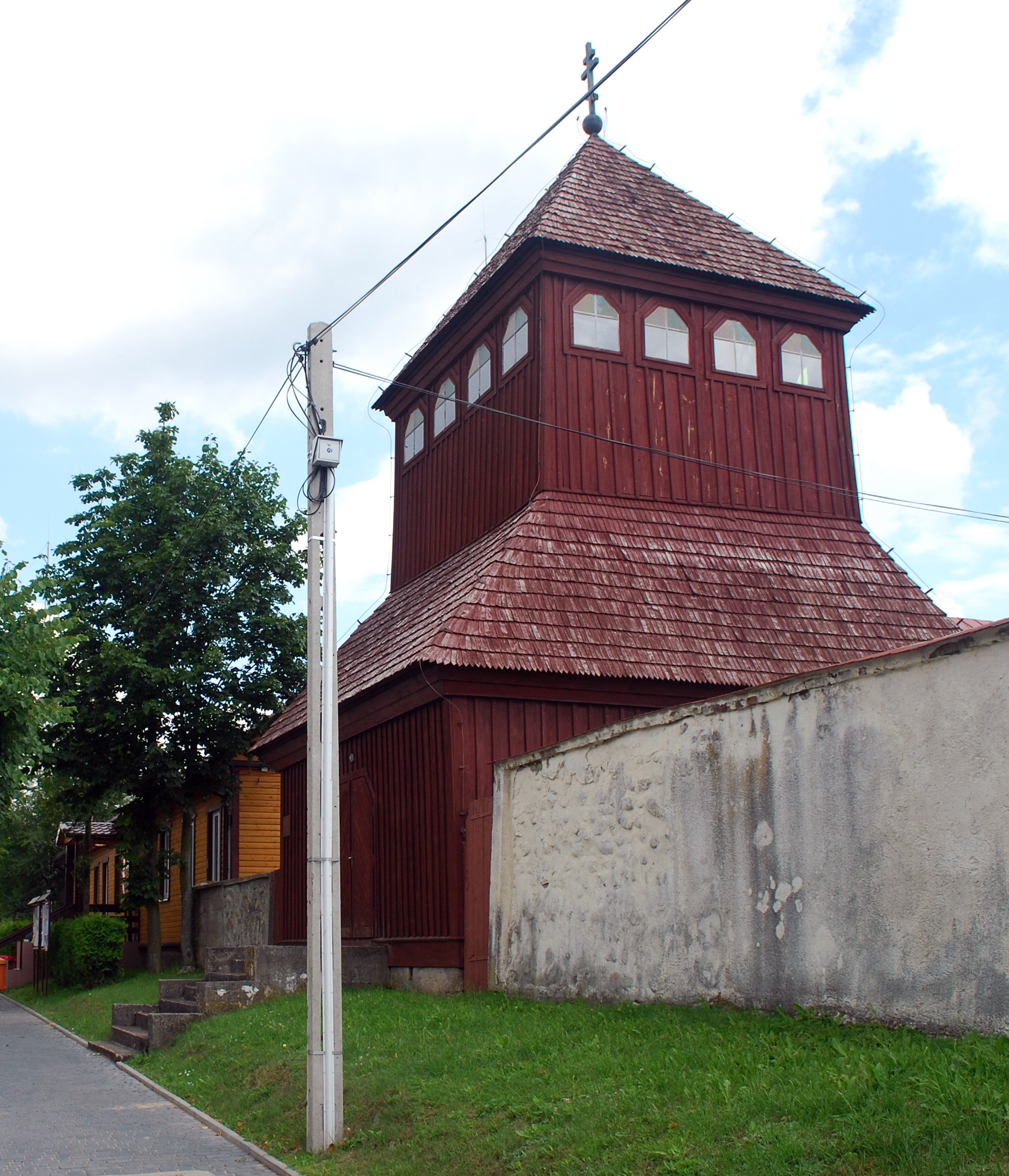 This photo from Podlaskie Voievodeship was taken during Polish Wikiexpedition 2009 set up by Wikimedia Polska Association. The making of this document was supported by Wikimedia Polska. Cerkiew sw. Mikolaja w Kleszczelach